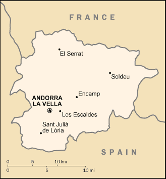 Andorra map from CIA World Factbook, converted from original GIF format